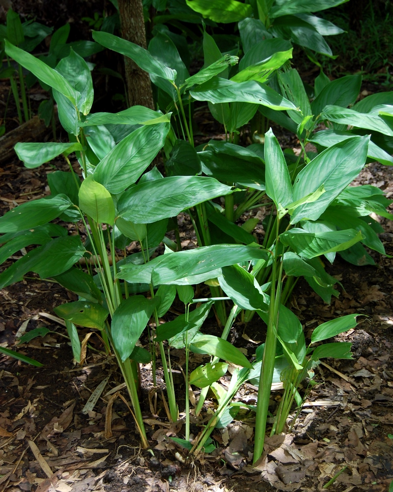 Arrowroot plant, Maranta arundinacea. Banyumas, Central Java.